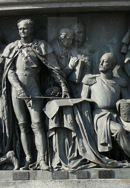 Mikhail Speransky on the Monument «Millennium of Russia» in Veliky Novgorod